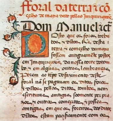 Foral of Maia. D. Manuel I of Portugal, 1519